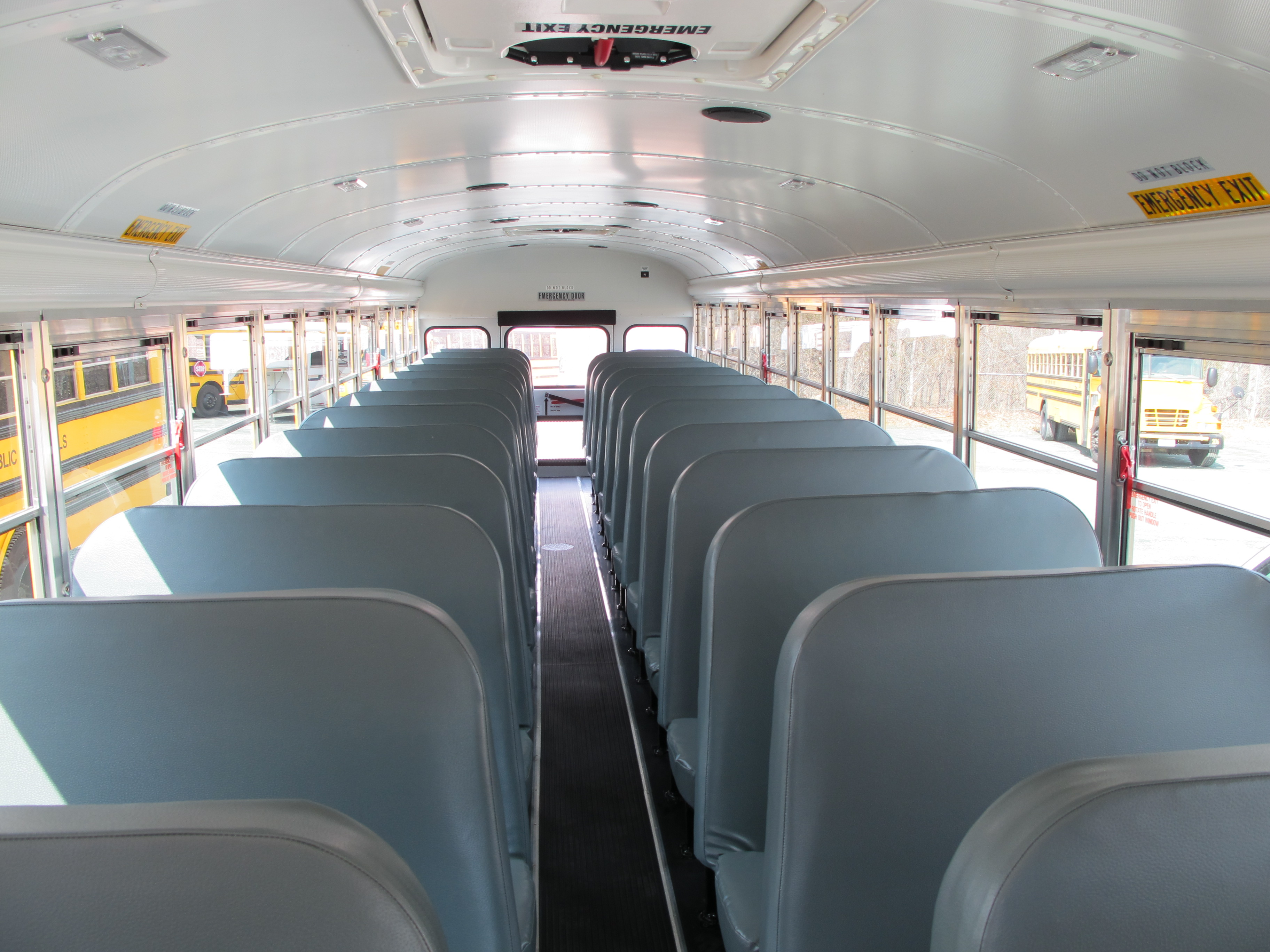 picture of school bus interior